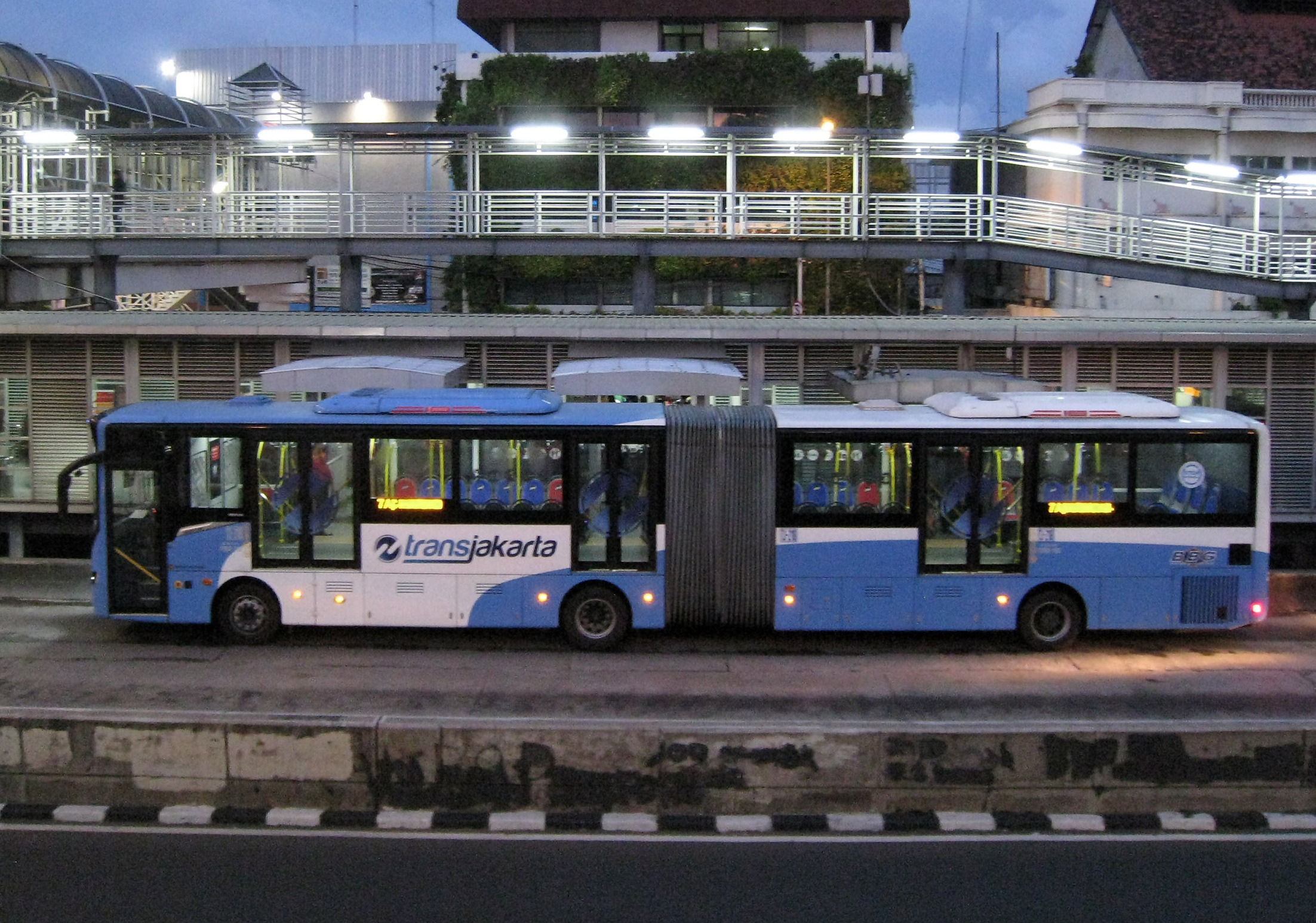 Transjakarta Scania articulated bus at Harmoni Central Busway, Central Jakarta, Indonesia.